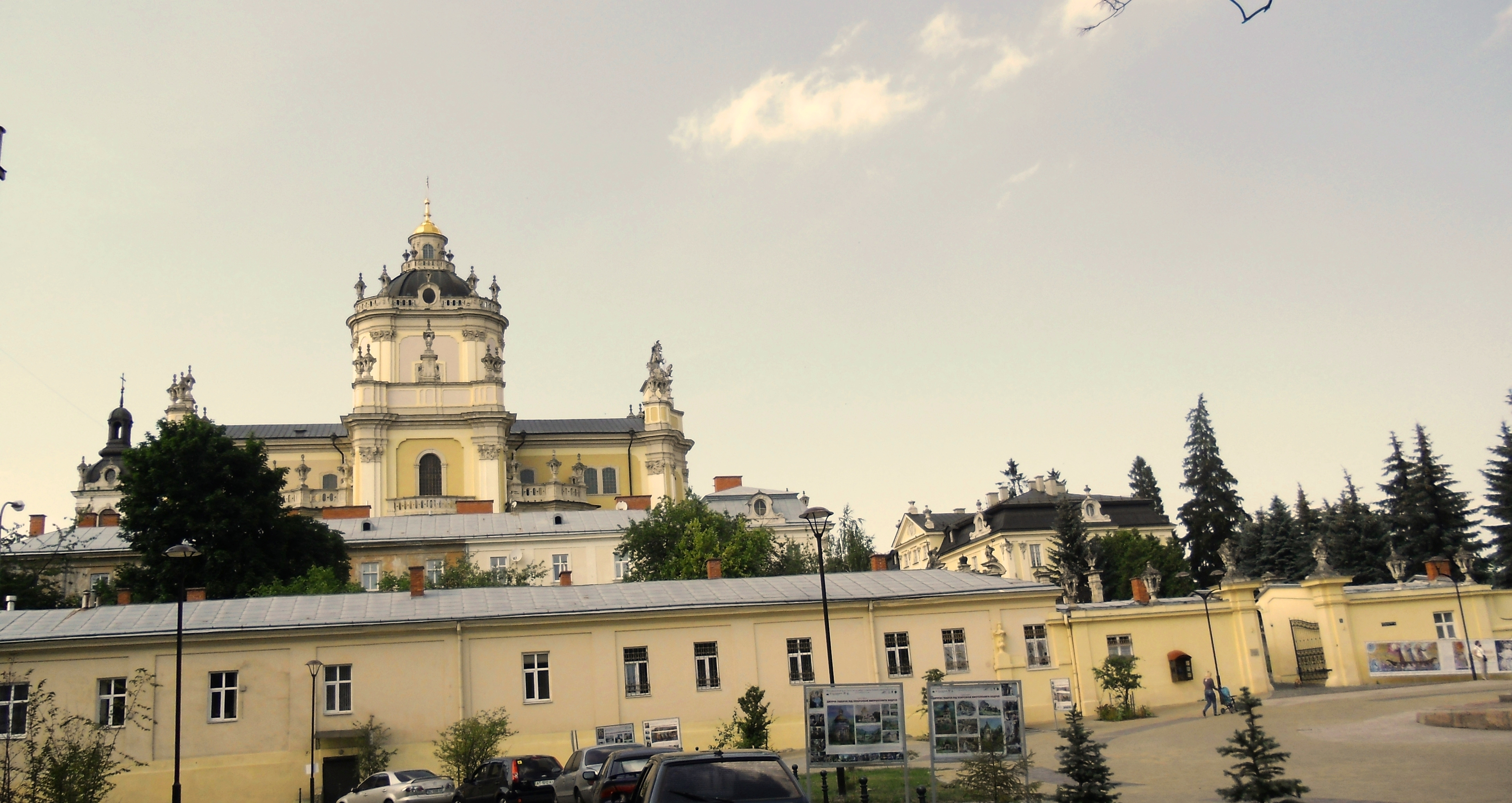 St. George Cathedral of the UGCC, Lviv.